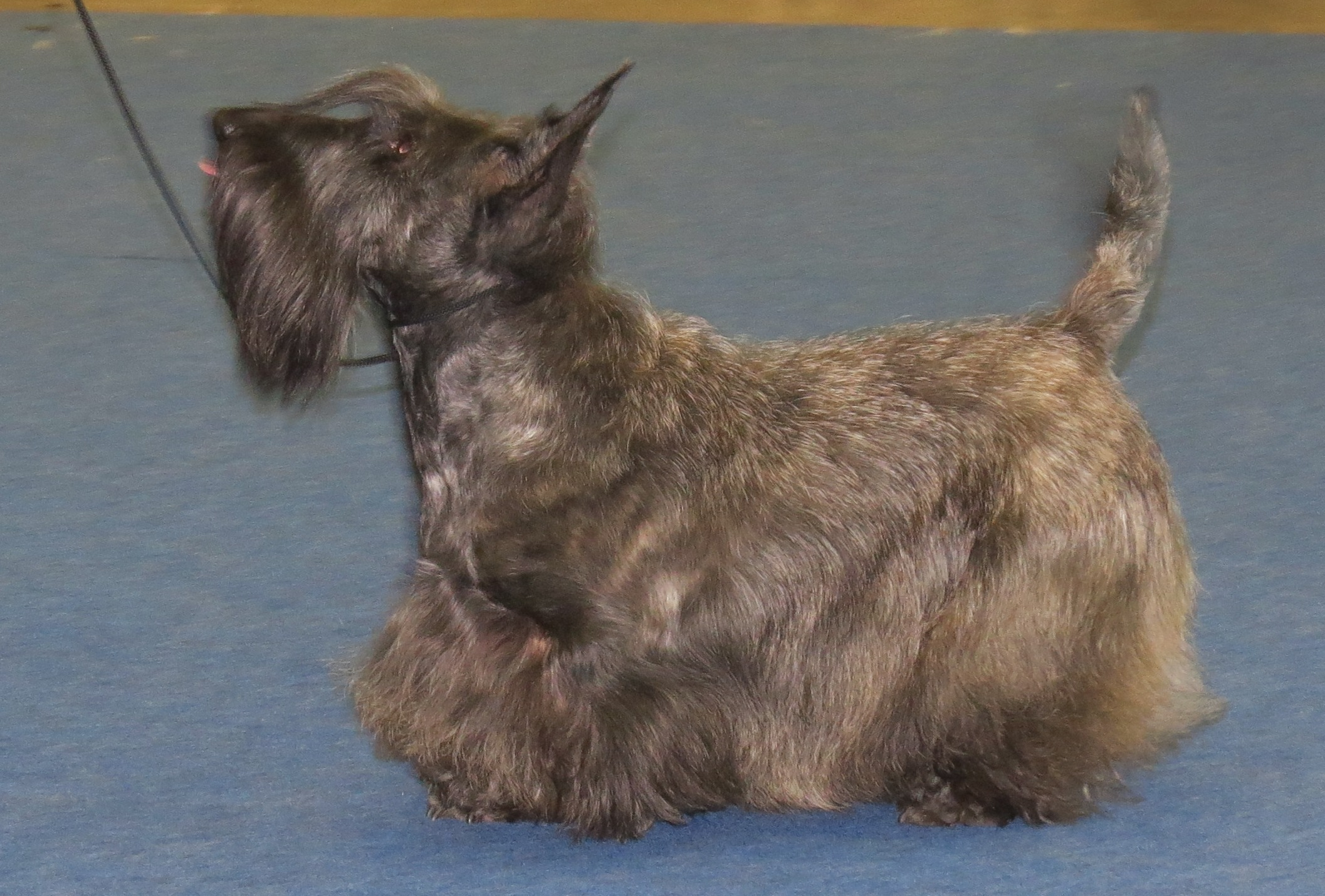 Koira 2013 Helsinki 13-15/12/2013